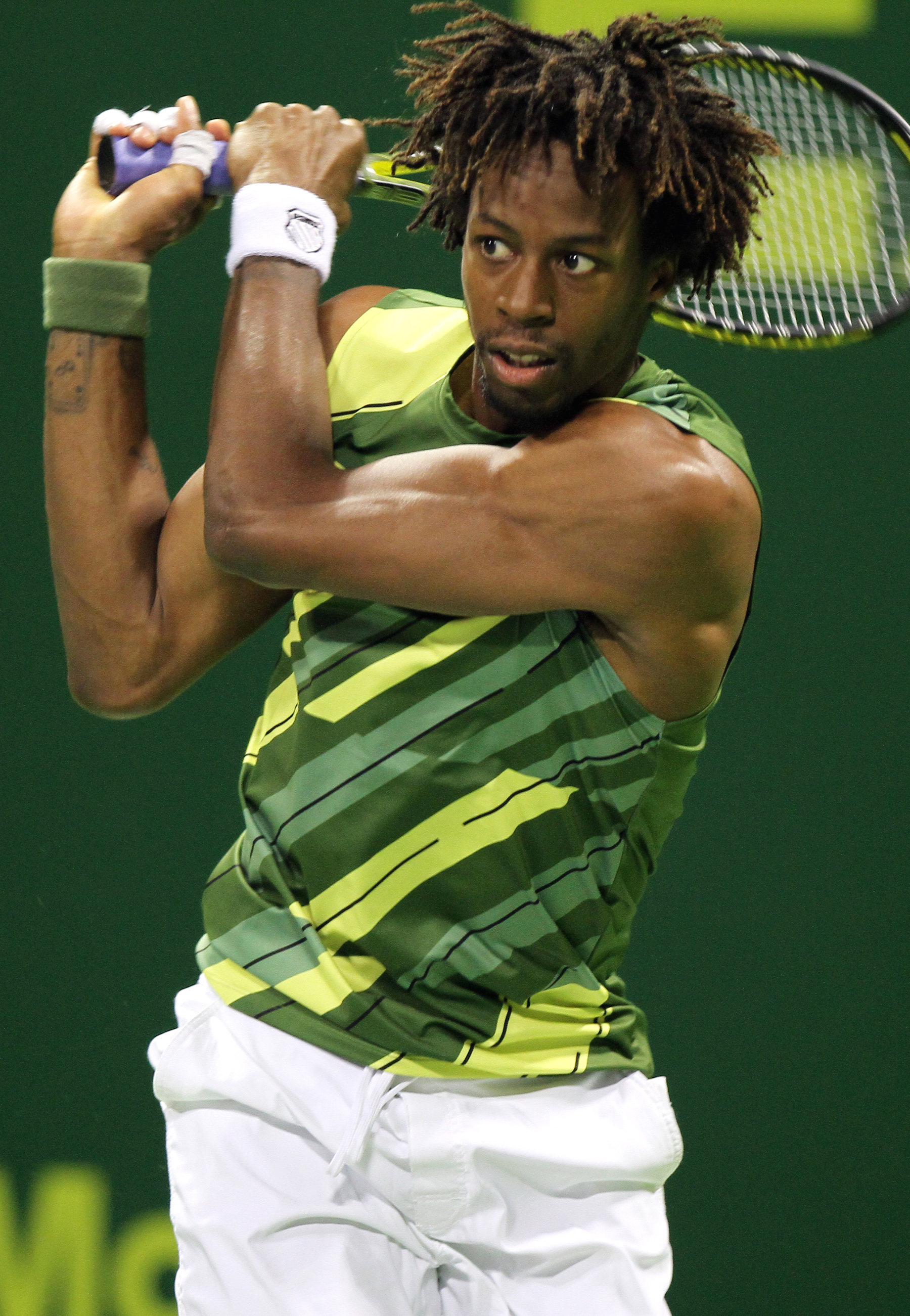 Frenchman Gael Monfils during the final of the Qatar Exxonmobil Open in Doha. Pic by Vinod Divakaran